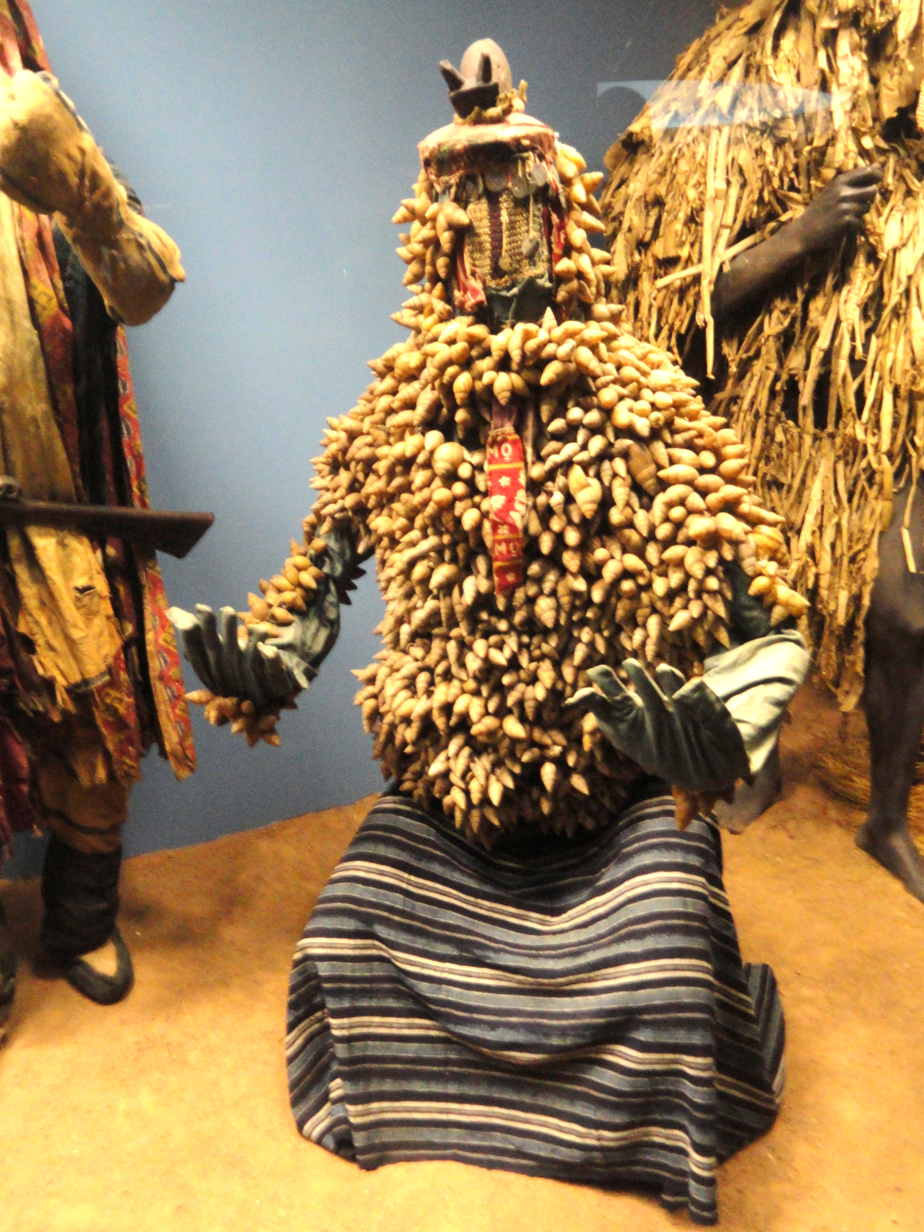 Exhibit in the African collection of the American Museum of Natural History, Manhattan, New York City, New York, USA.